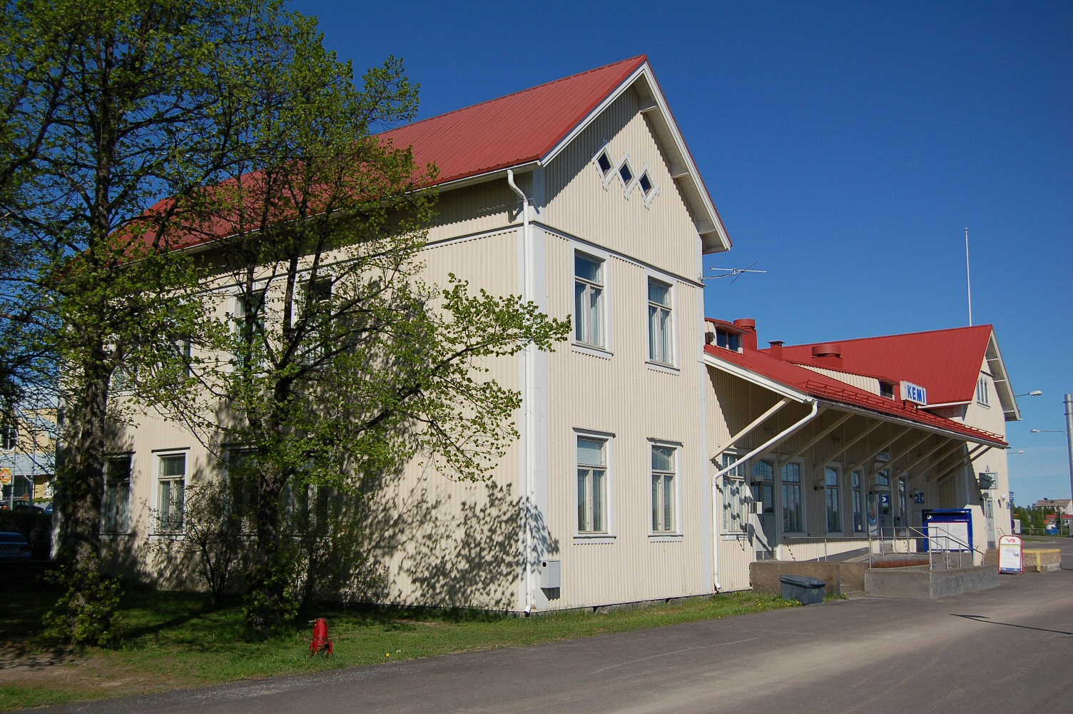 Kemi railway station, Kemi, Finland.